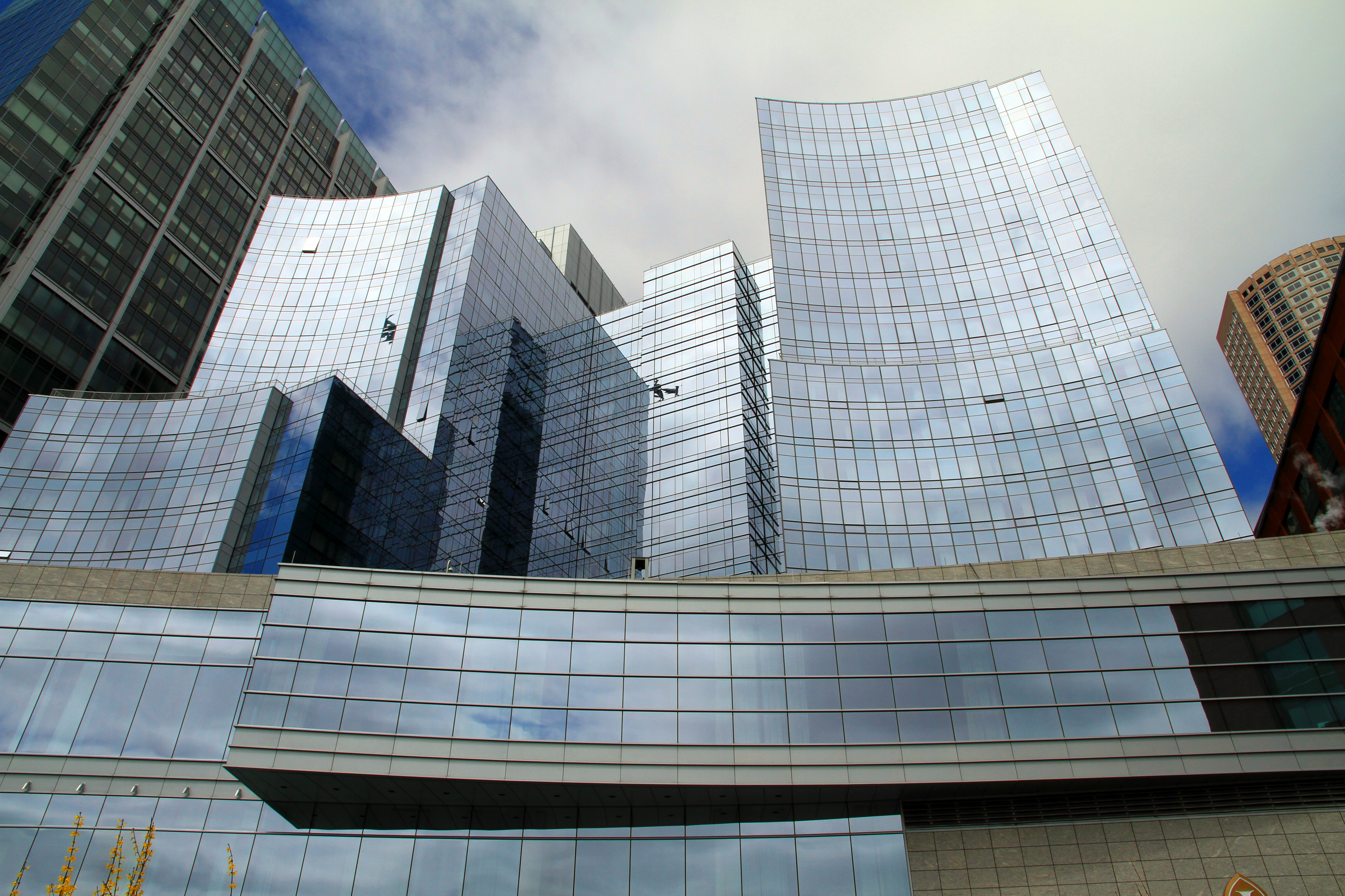 InterContinental Boston